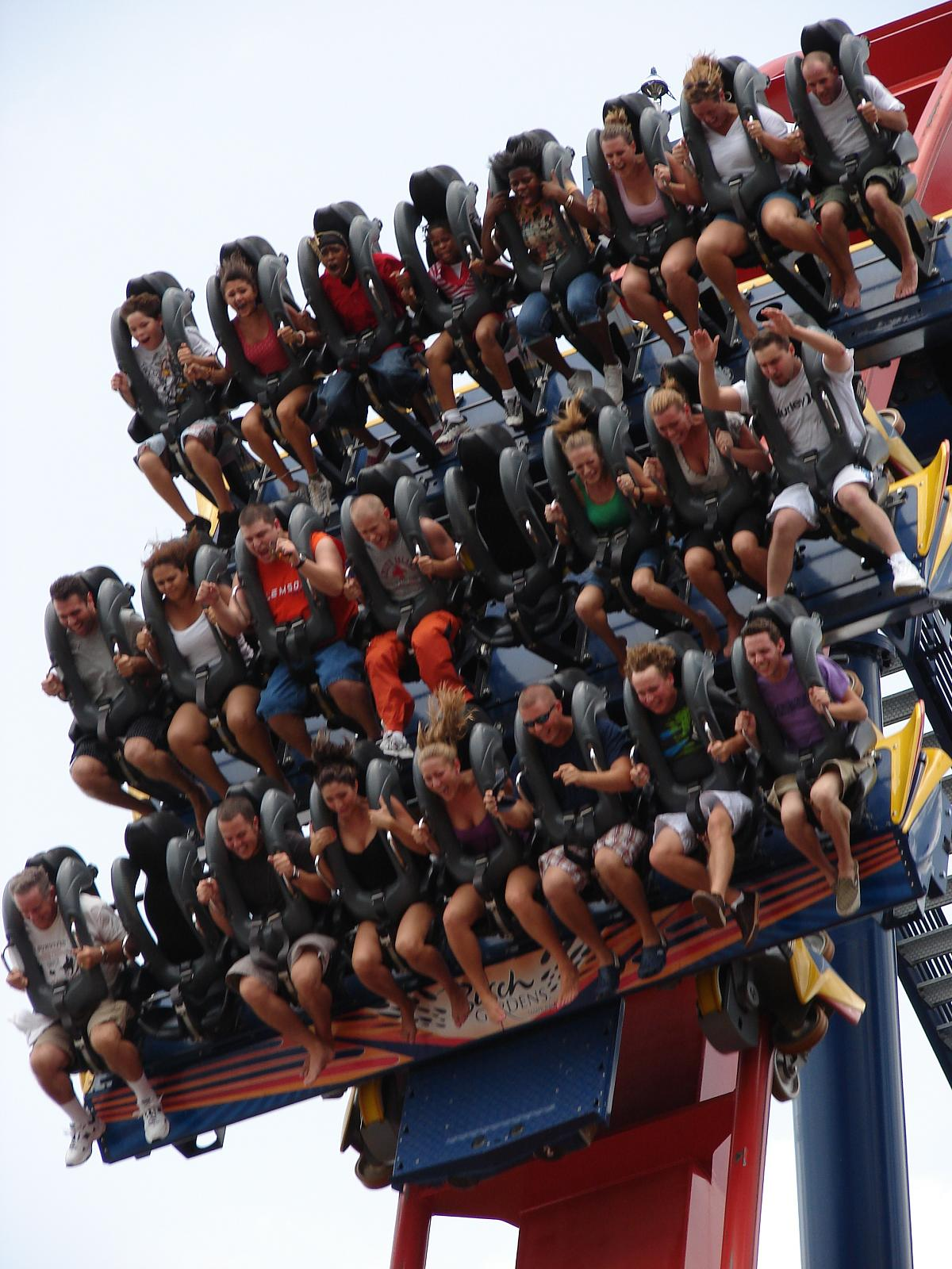 A floorless train of SheiKra on a drop